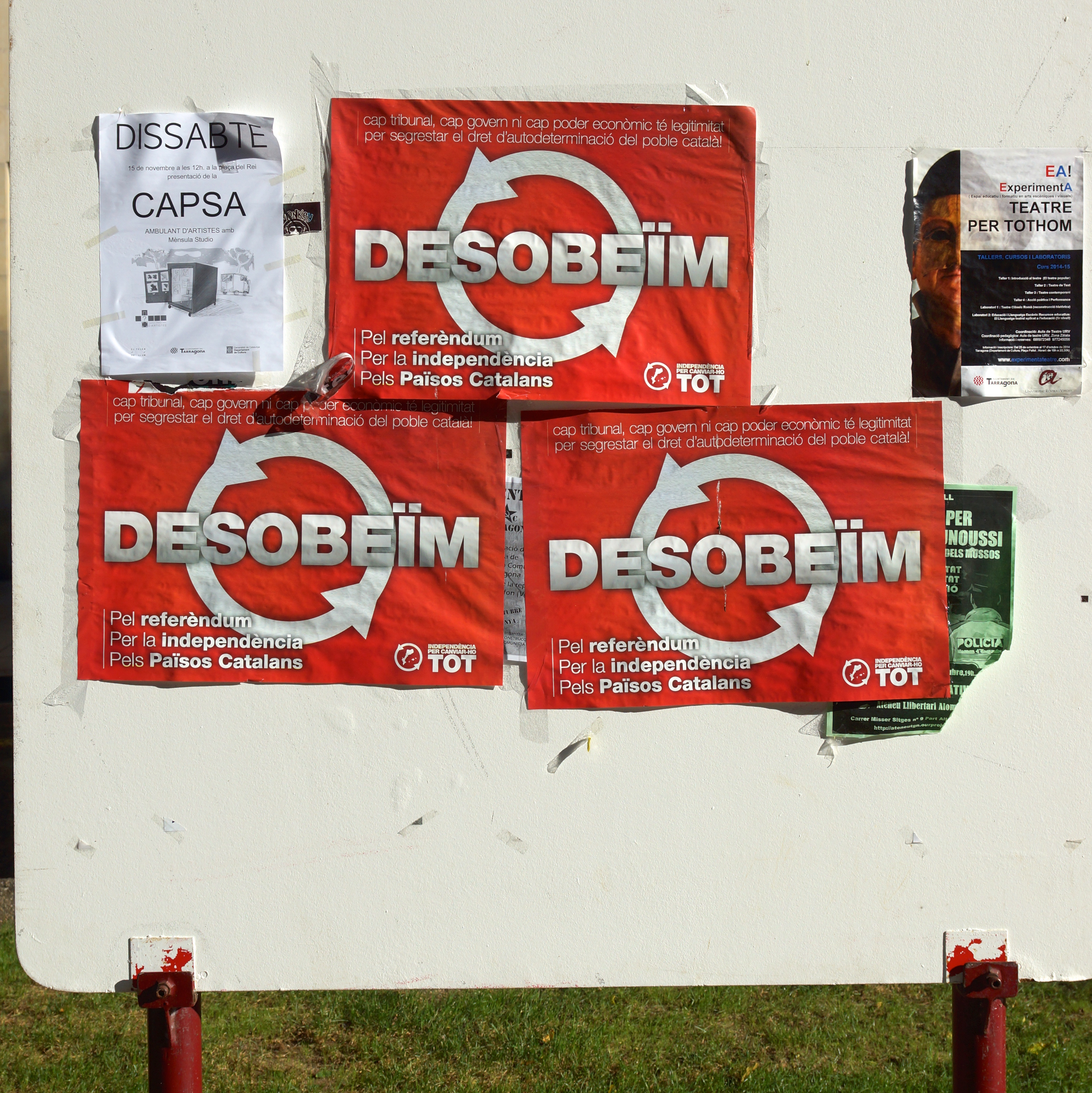 Tarragona, Catalonia: Rambla nova: let's disobey